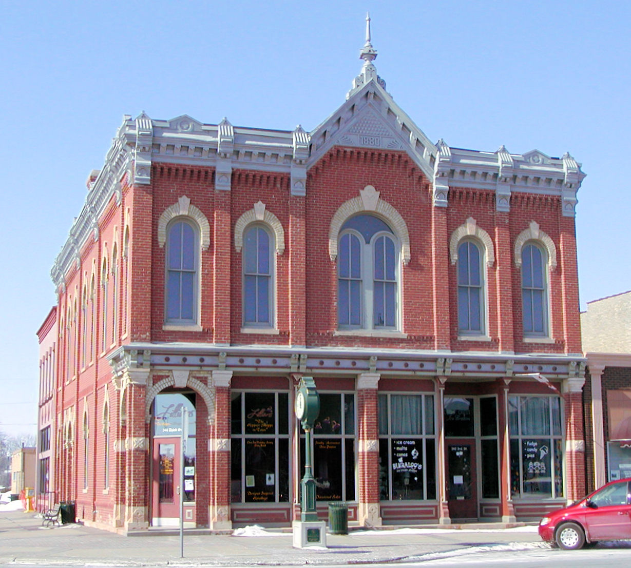 By William Wesen on February 23, en:2008 - released to the Public Domain Category:Images of Minnesota - should be in Commons Category:Registered Historic Places in Minnesota